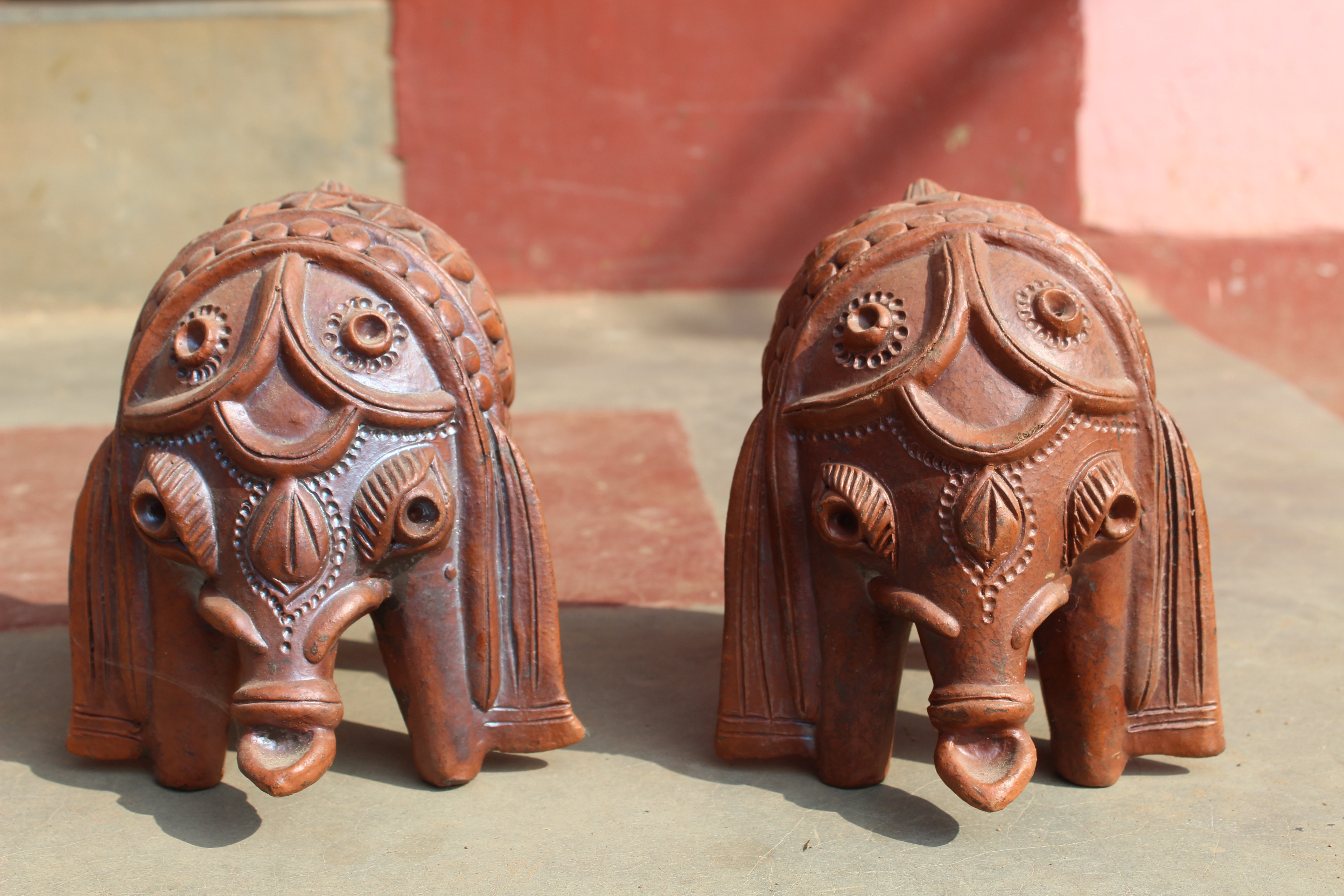 Terracotta art of Panchmura